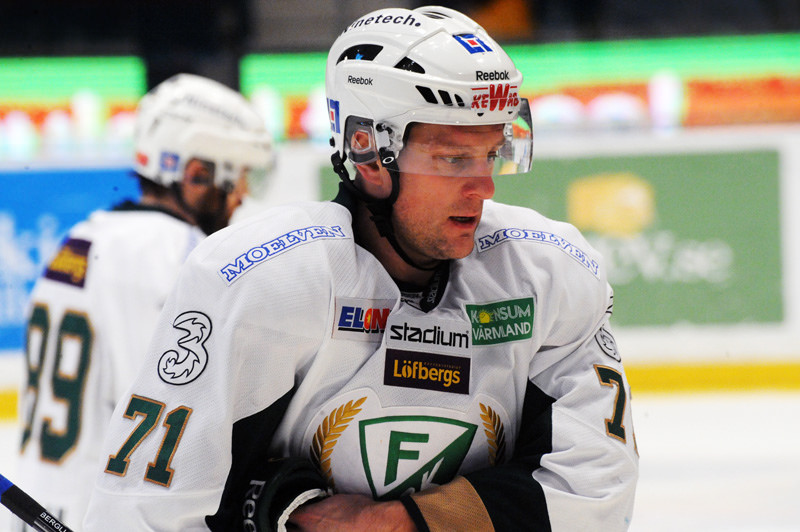 Färjestad BK forward Christian Berglund during a SHL game against AIK